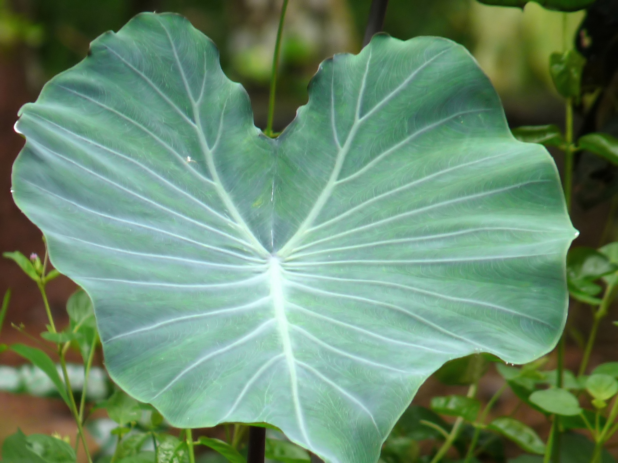 Colocasia esculenta, Green Taro, is a tropical plant grown primarily for its edible corms, the root vegetables whose many names include Taro and Eddoe. It is believed to be one of the earliest cultivated plants.